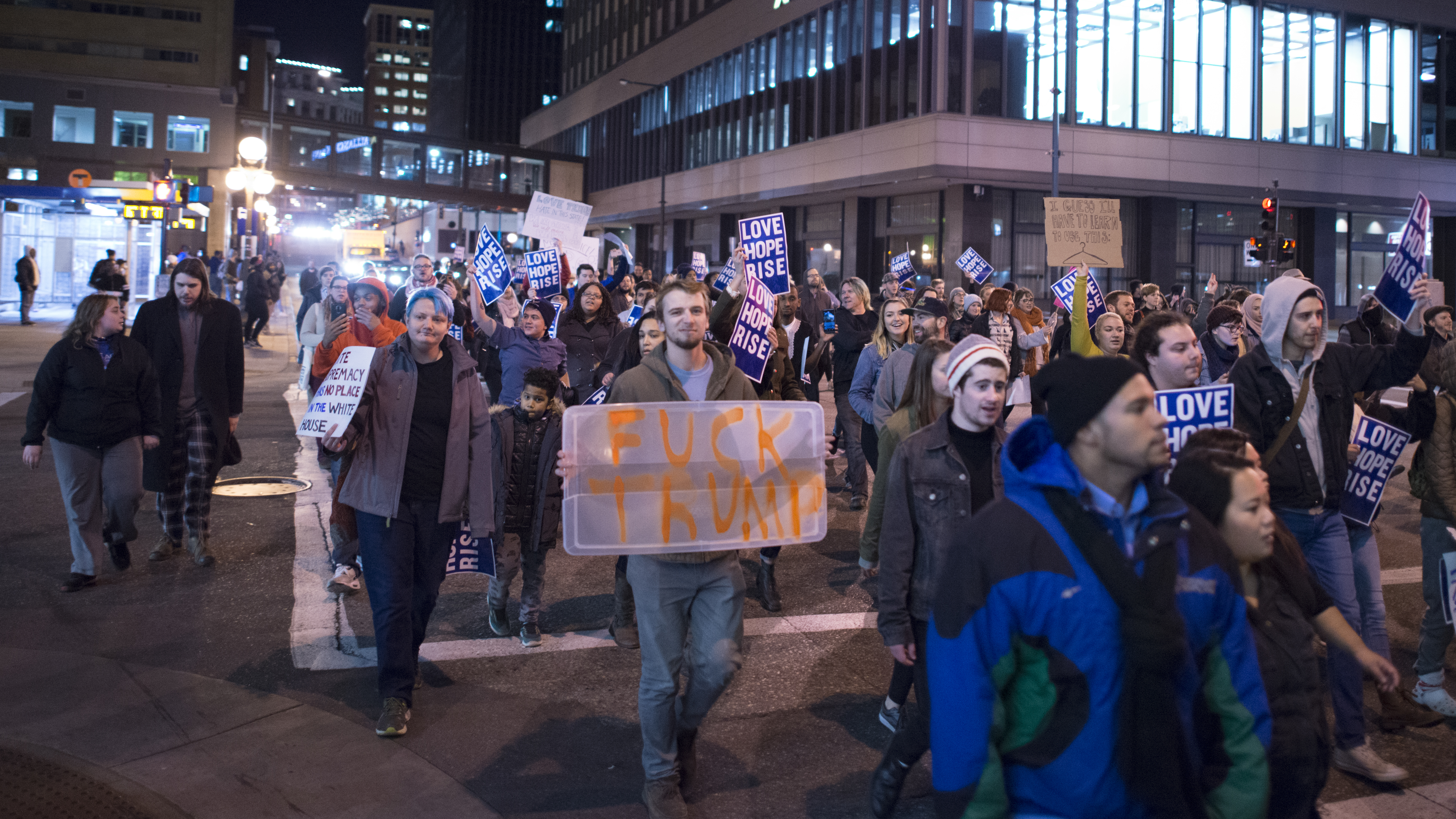 St. Paul, Minnesota November 9, 2016 About 300 people marched through the streets of downtown St. Paul to protest the election of Donald Trump. Protesters denounced proposed Trump policies, bigotry and white supremacy. Common signs and chants included: "Love Hope Rise", "Not my President", "Hate has no place in America", "Is this who we are?", "F*ck Donald Trump". On November 8, Donald Trump won a sufficient number of electors in the United States Electoral College to become President, but Hillary Clinton received more votes overall. Donald Trump won 59,704,886 votes and Hillary Clinton won 59,938,290 votes - approximately 233,000 more votes than Trump (numbers from Google at 11:40am November 10). 2016-11-09 This is licensed under a Creative Commons Attribution License. Give attribution to: Fibonacci Blue